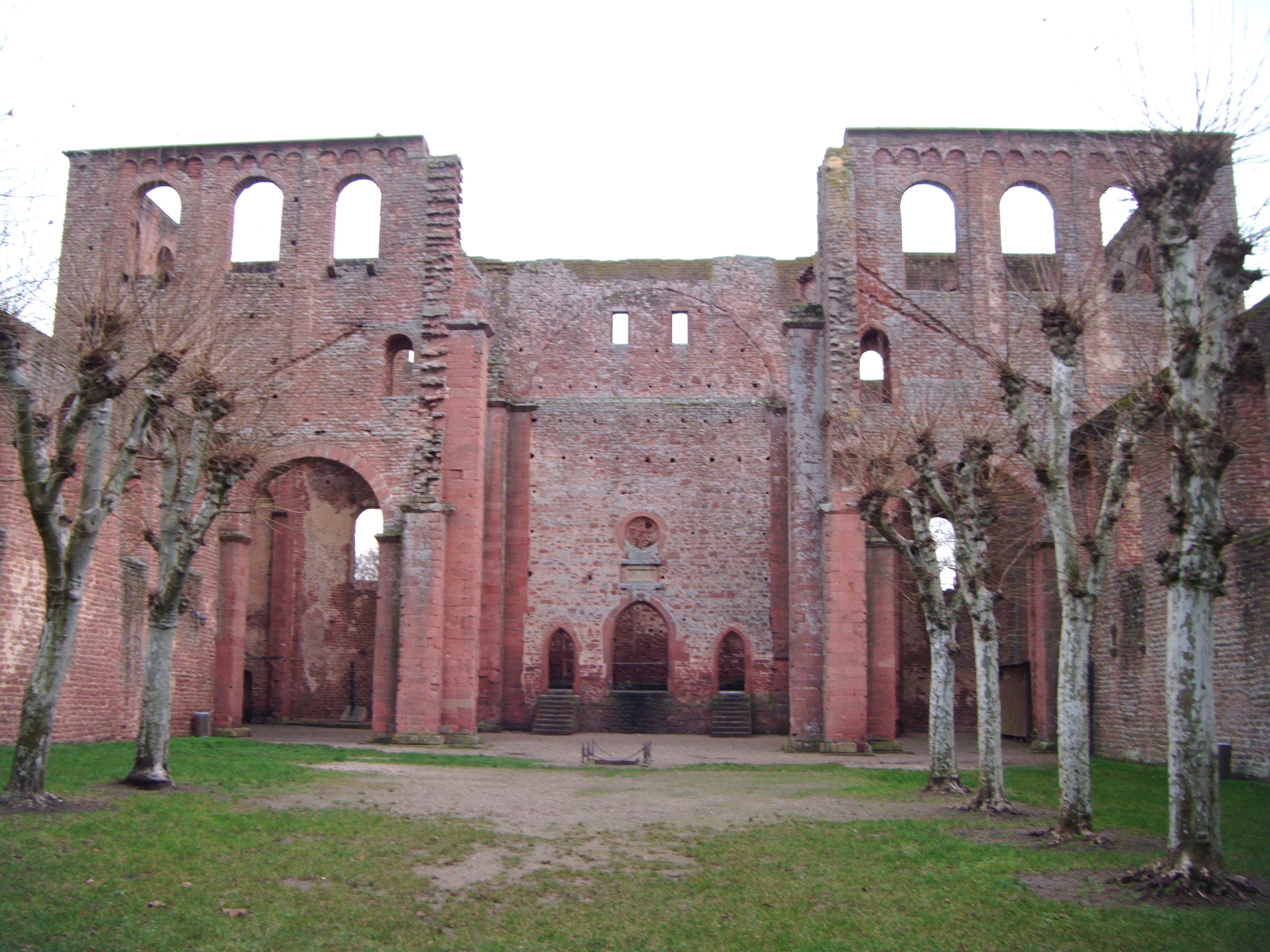 Klosterruine Limburg, Blick aus dem Langhaus zum Chorbereich